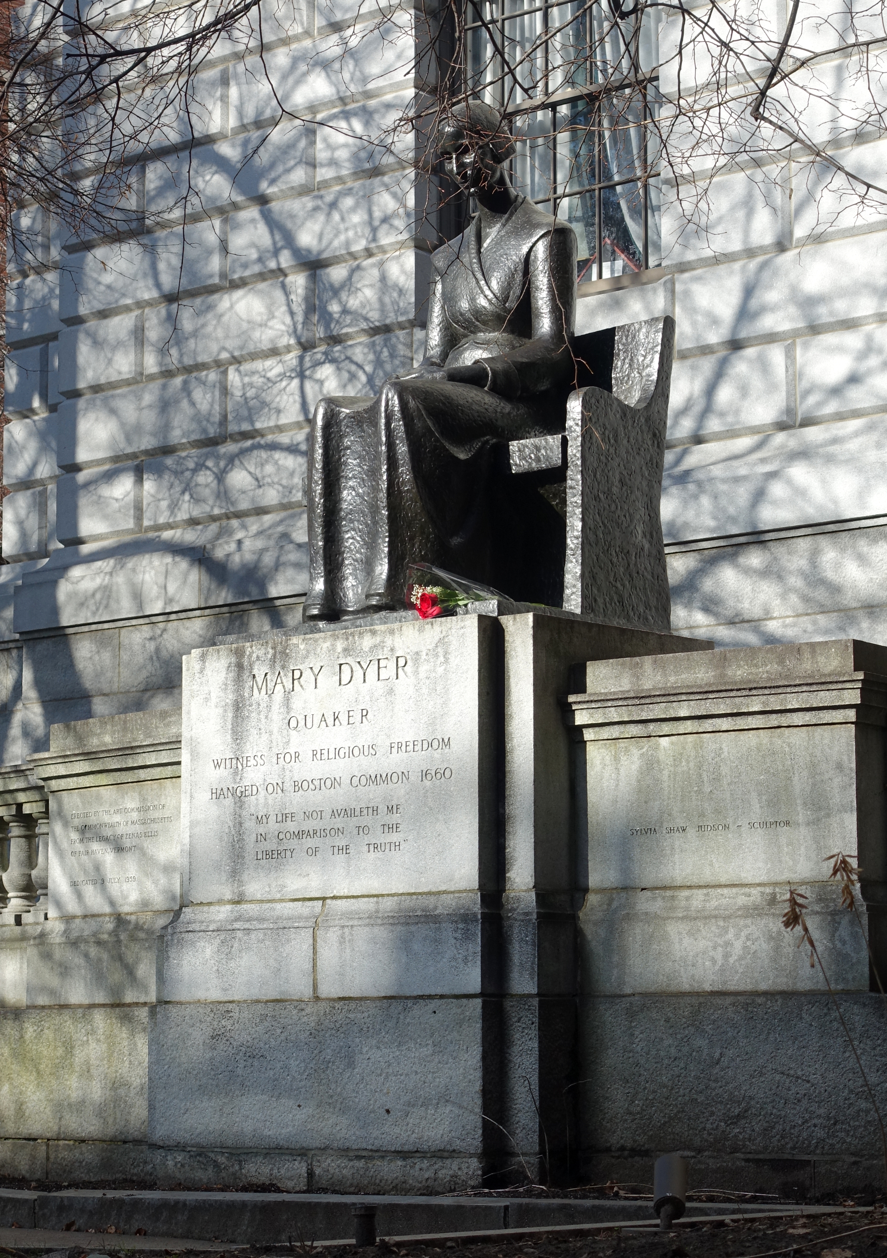 Mary Dyer by Sylvia Shaw Judson - outside the Massachusetts State House, Boston, Massachusetts, USA. Statue dedicated June 9, 1959. This artwork is in the public domain because it was published in the United States between 1923 and 1963, with its copyright not renewed.